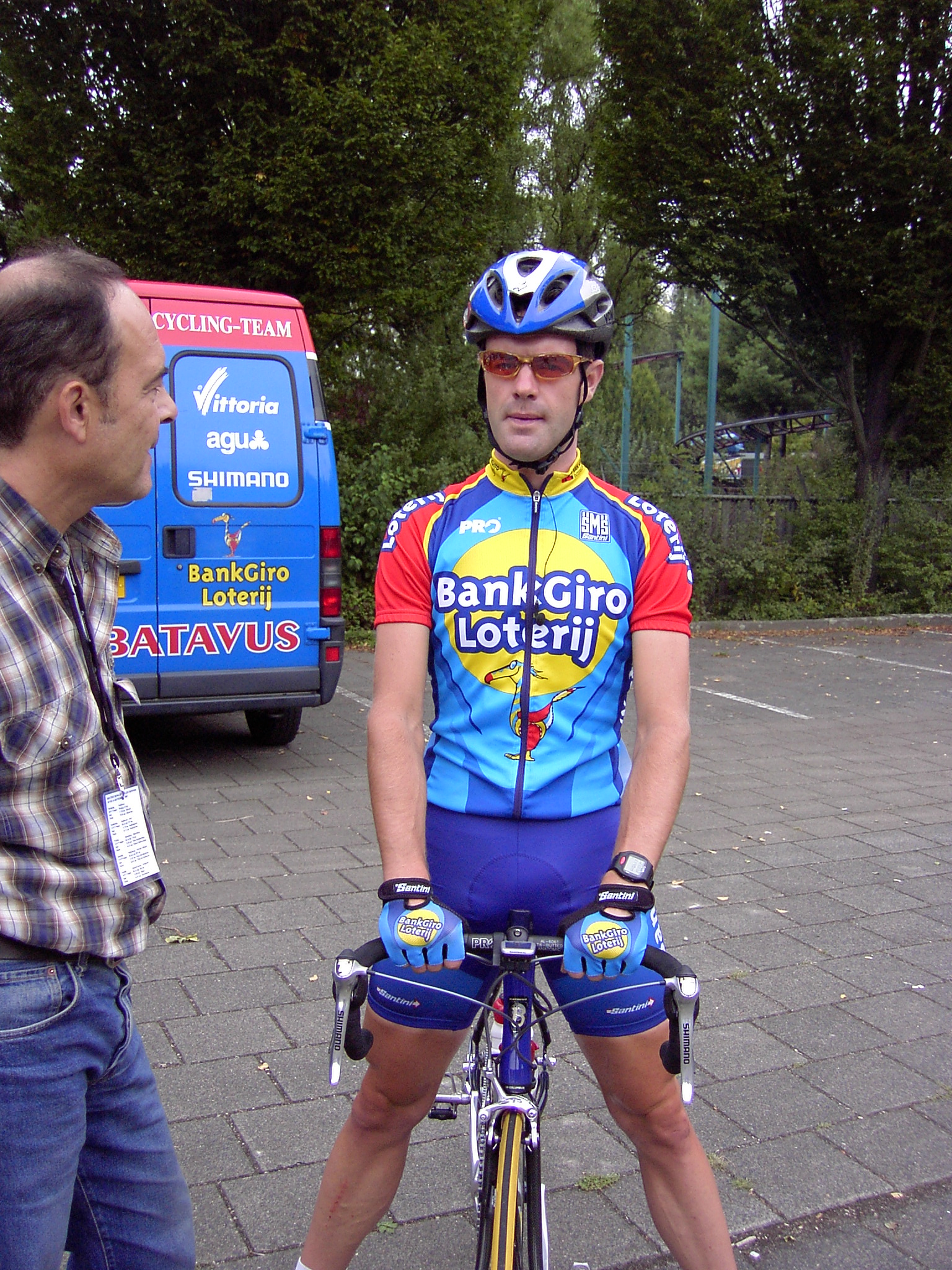 Cyclist Remco van der Ven in Valkenburg 2003